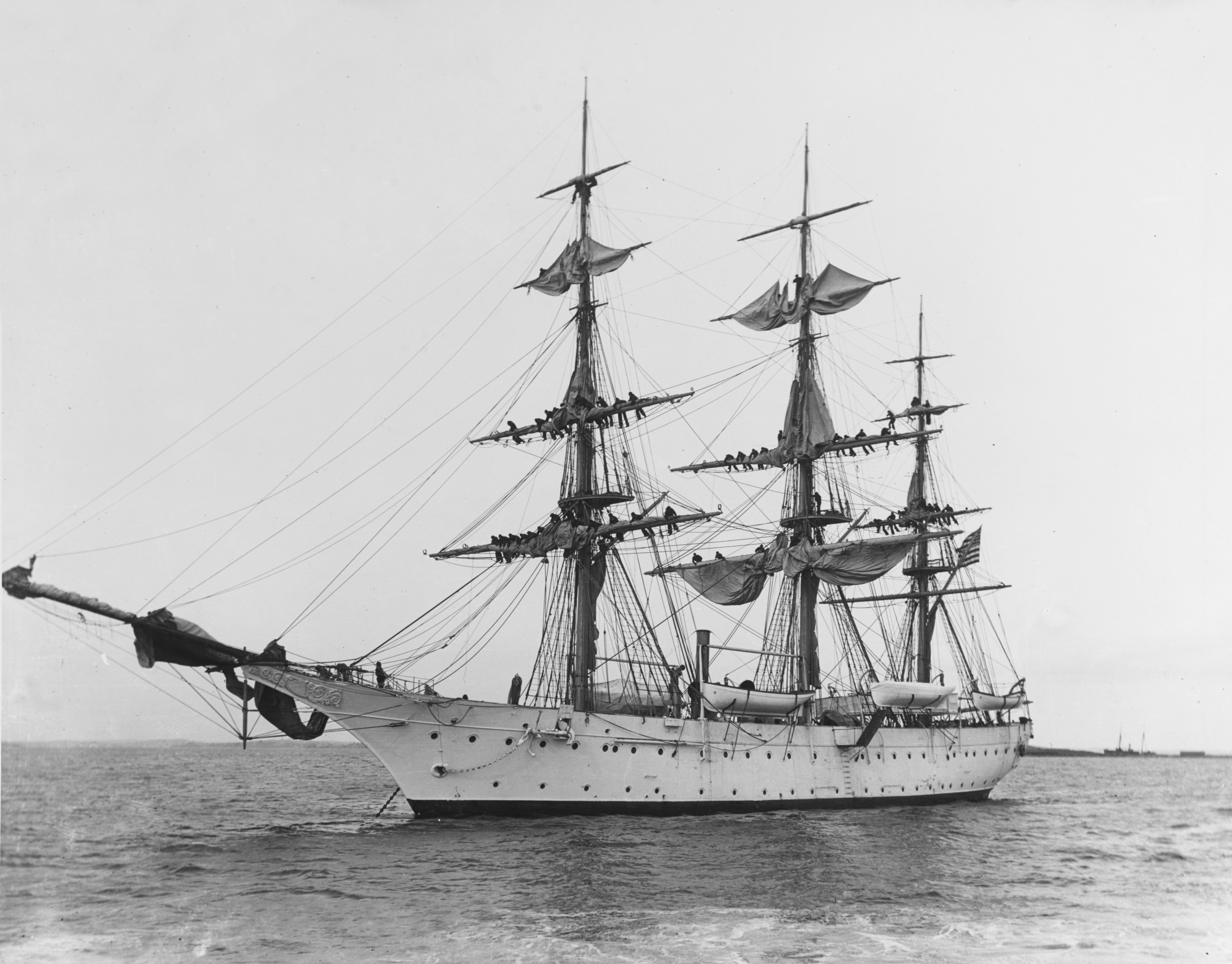 United States Naval Academy midshipmen furl sails aboard the training ship, in June 1905. It served at the Academy as USS Chesapeake from 1900 to 1905 and as USS Severn from 1905 to 1910.